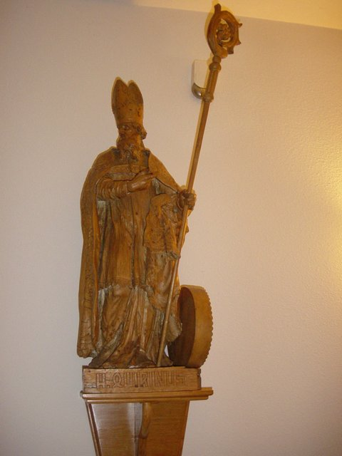 statue of Saint Quirinus of Siscia